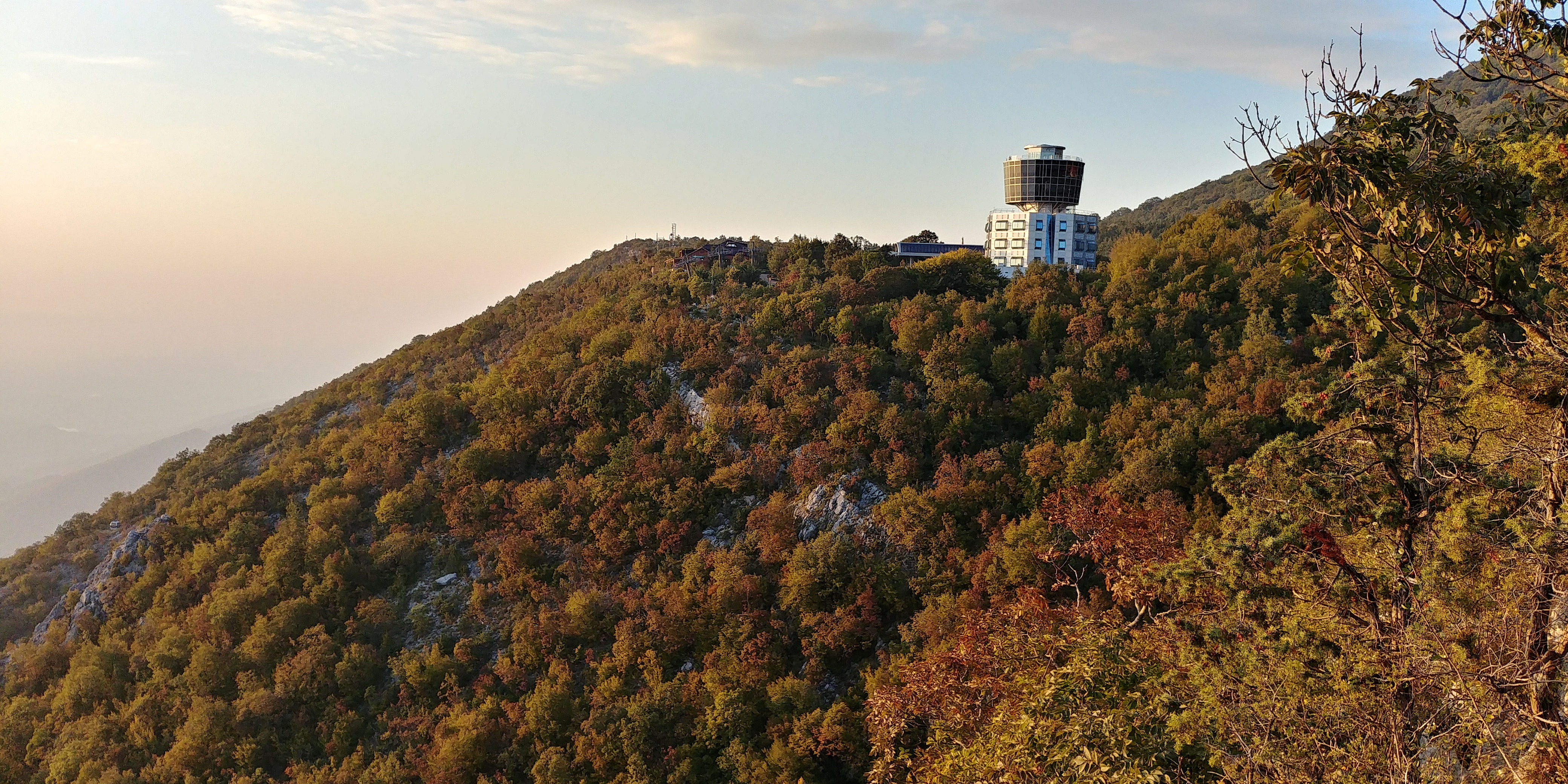 Dajti National Park